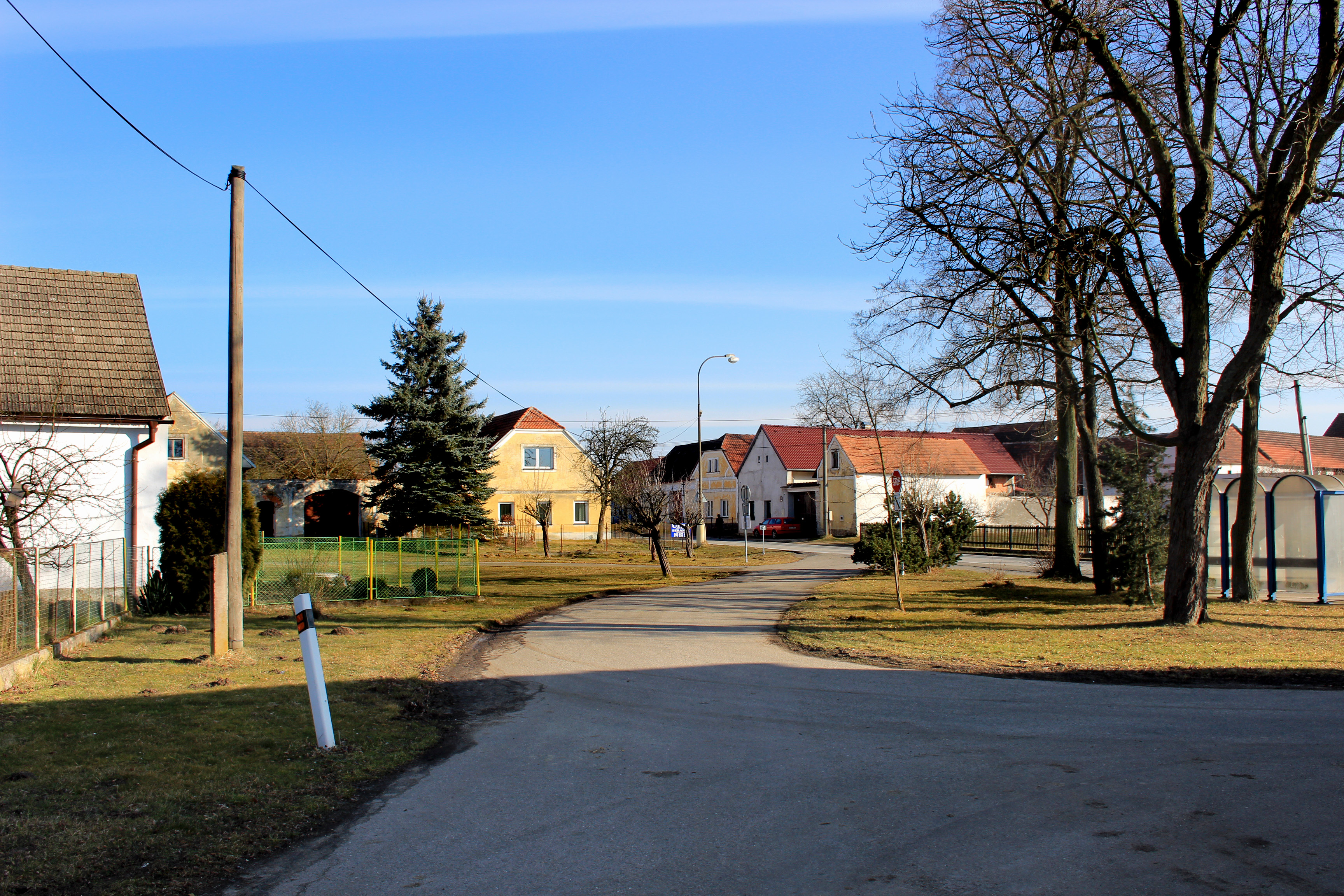 Common in Doňov village, Czech Republic.